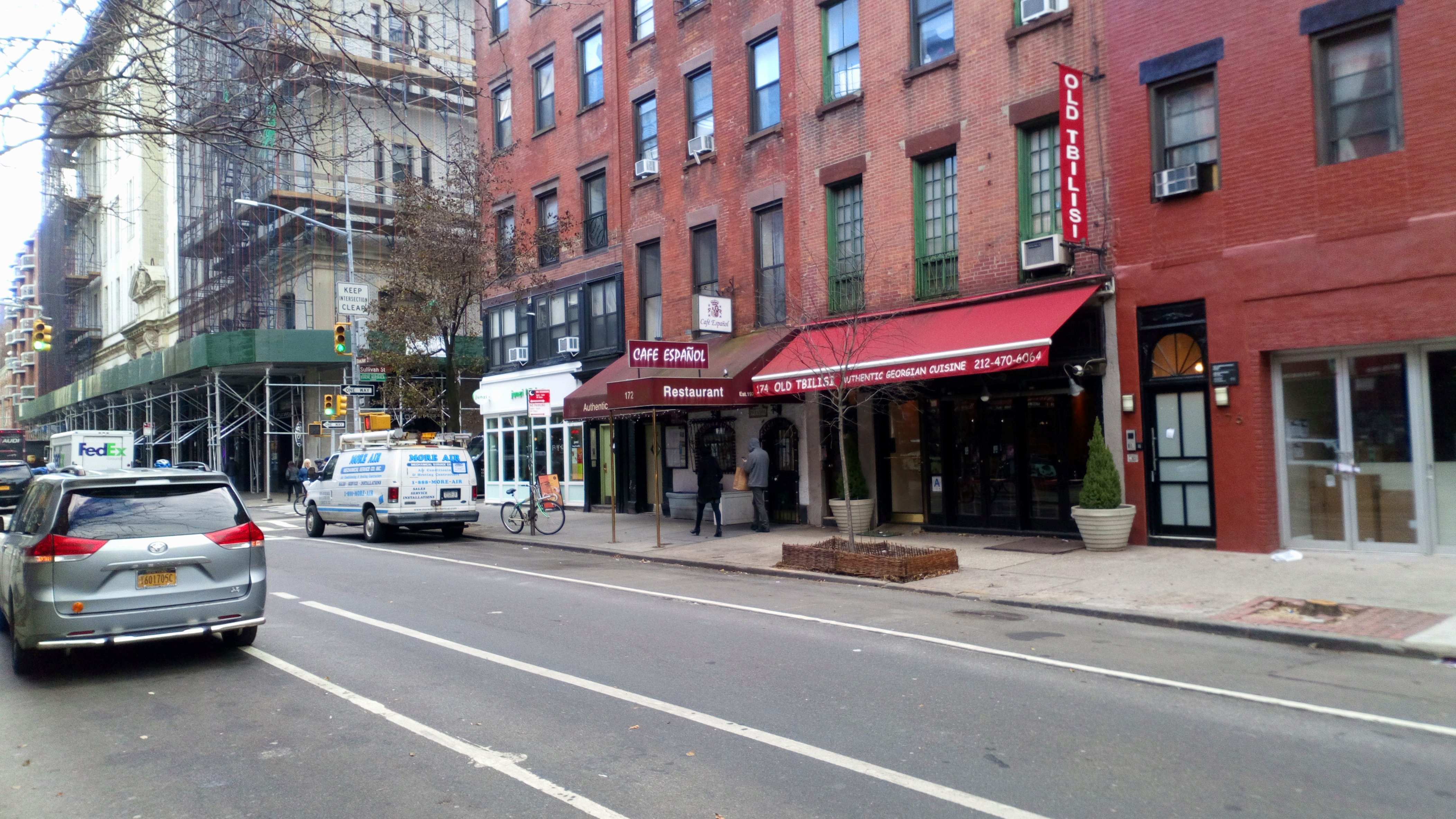 NYC, the United States of America